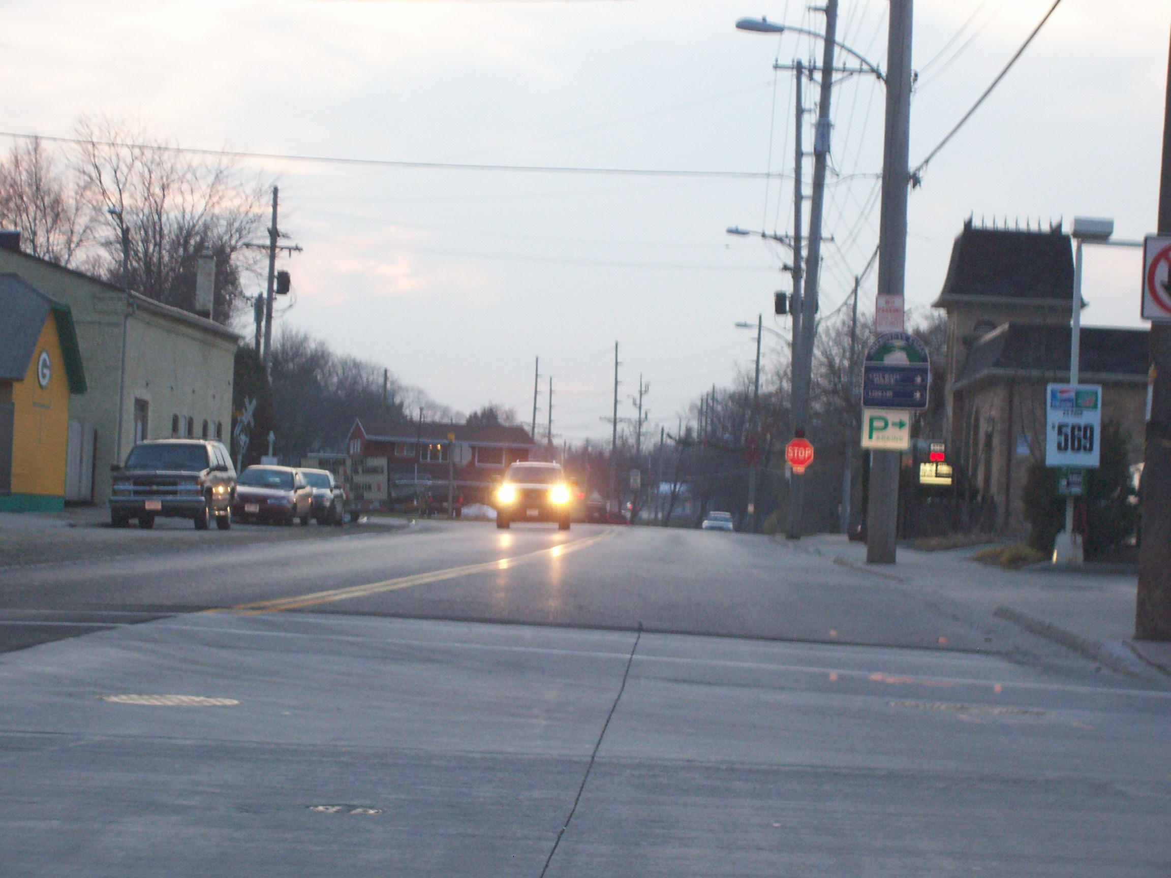 Looking west on County PP at its intersection with Wisconsin Highway 32 in the heart of Sheboygan Falls, Wisconsin, USA.